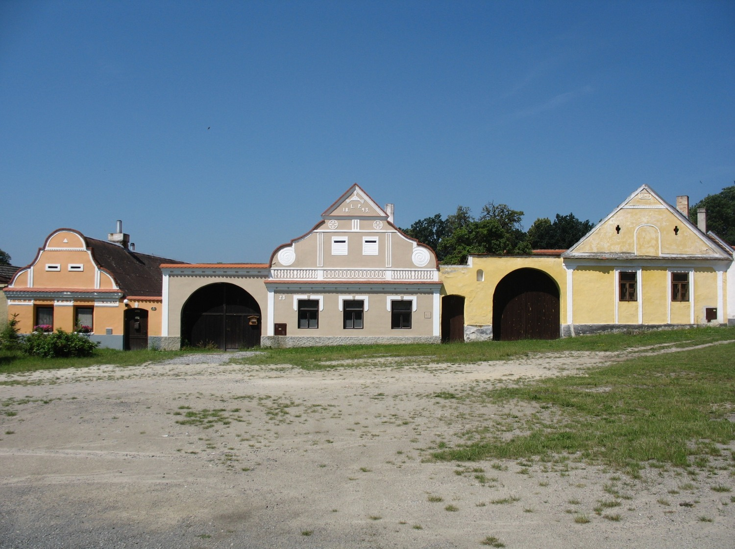 Zbudov, part of Dívčice municipality, České Budějovice District, Czech Republic